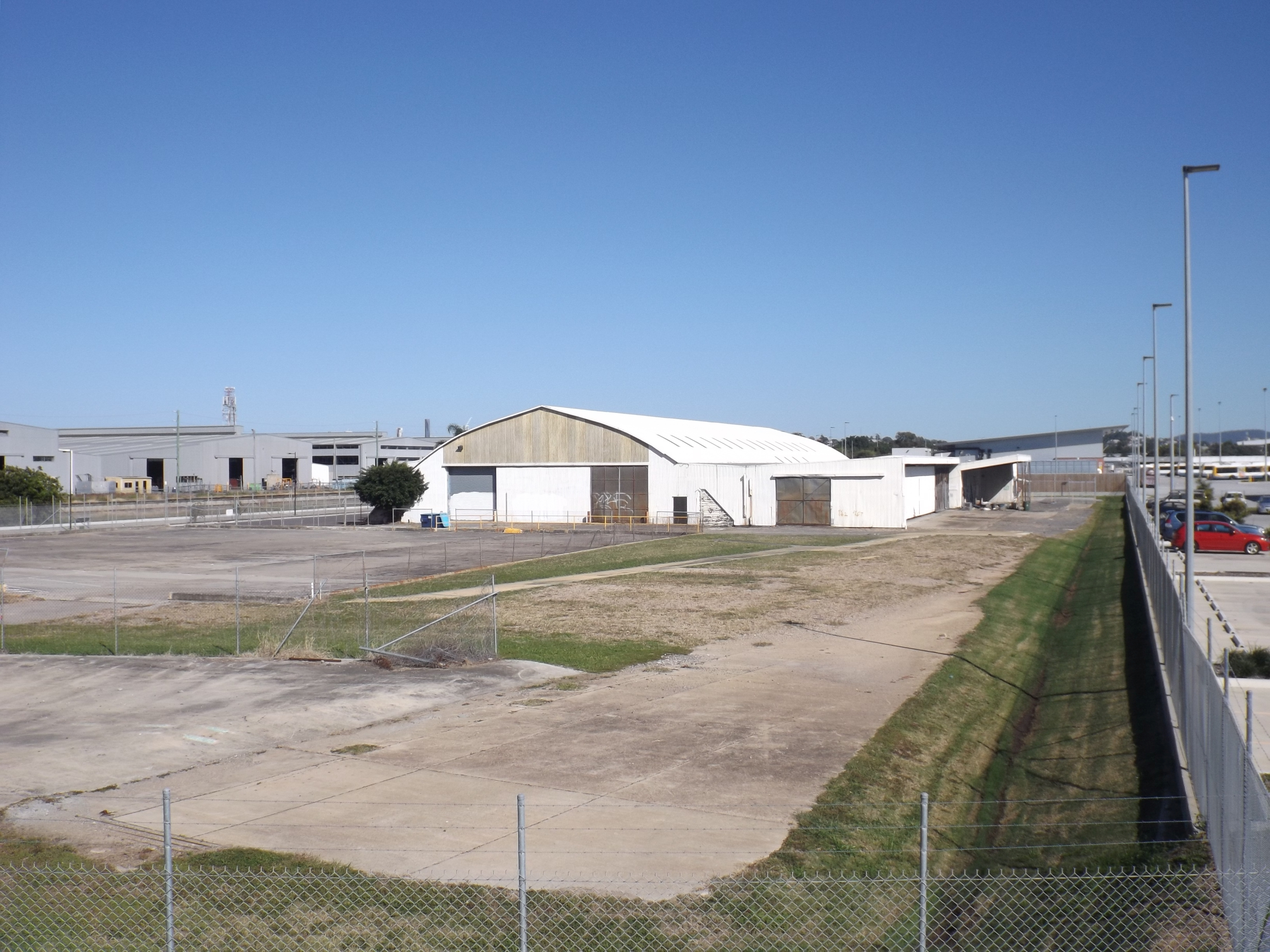 Photo of Second World War Hangar No. 7 and surrounding site at Eagle Farm, Brisbane, Queensland, Australia.